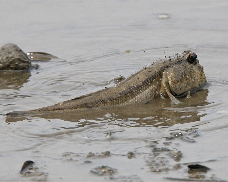 Giant mudskipper (Periophthalmodon schlosseri) in Sungei Buloh, Singapore on 7 December 2008